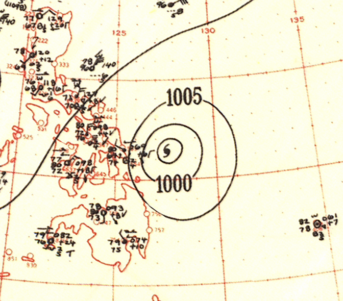 Surface weather analysis map of Typhoon Amy on December 8, 1951. At the time, it had winds of 140 mph (220 km/h) and a minimum pressure of 950 mbar.